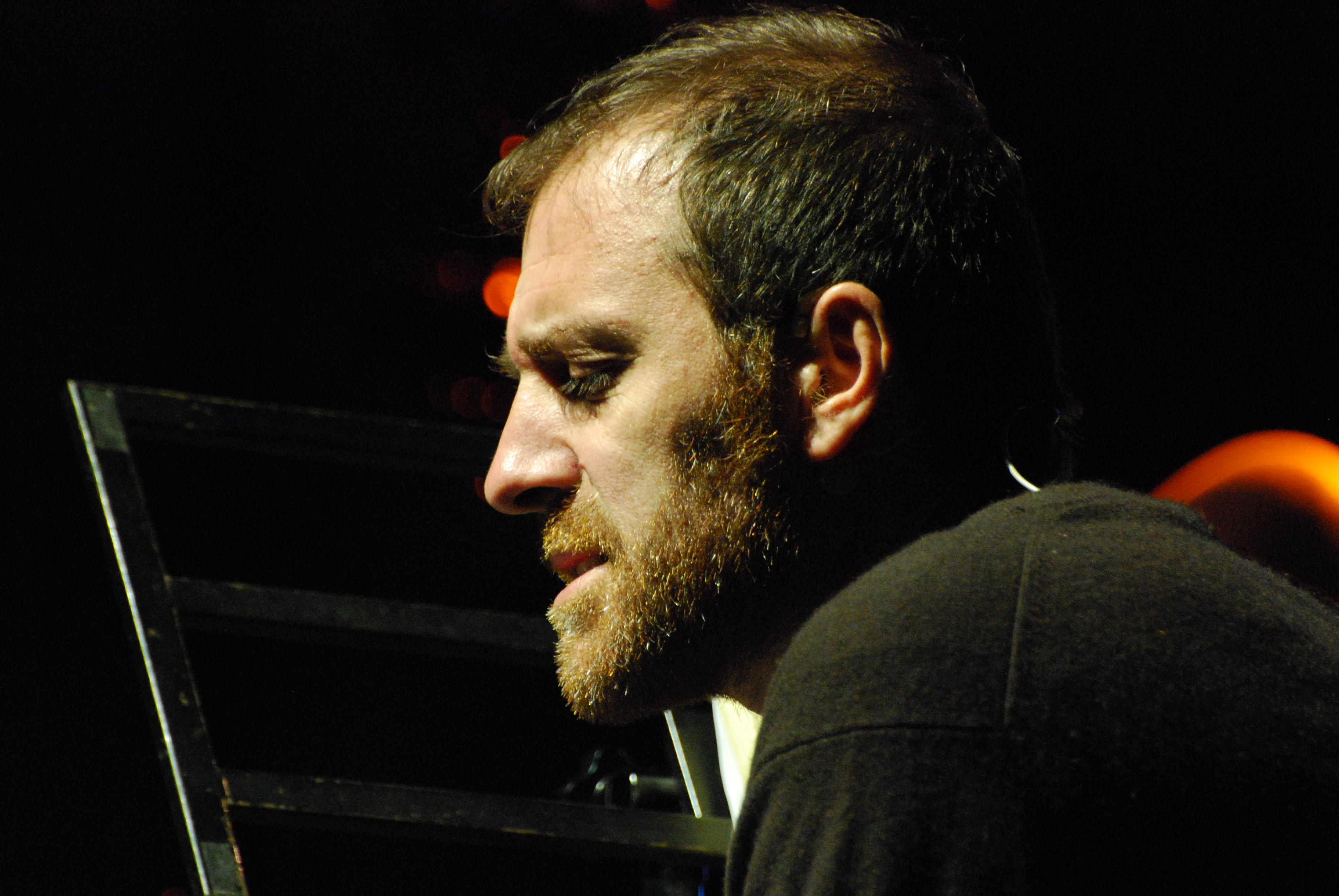 Valerio Mastandrea is an italian actor.